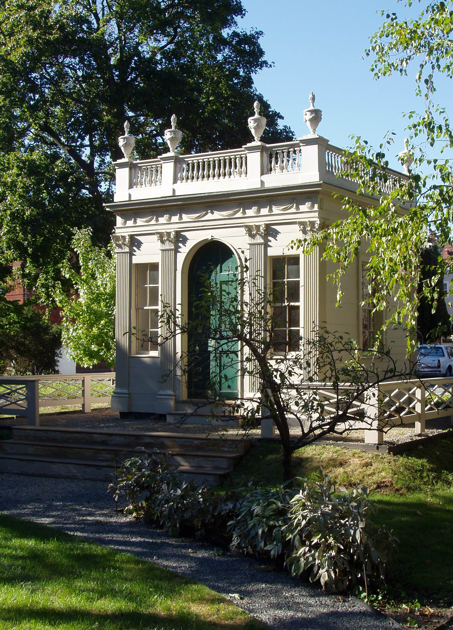 Derby-Beebe Summer House - Salem, Massachusetts. This structure is now owned by the Peabody Essex Museum. Photograph taken by me, September 2005.